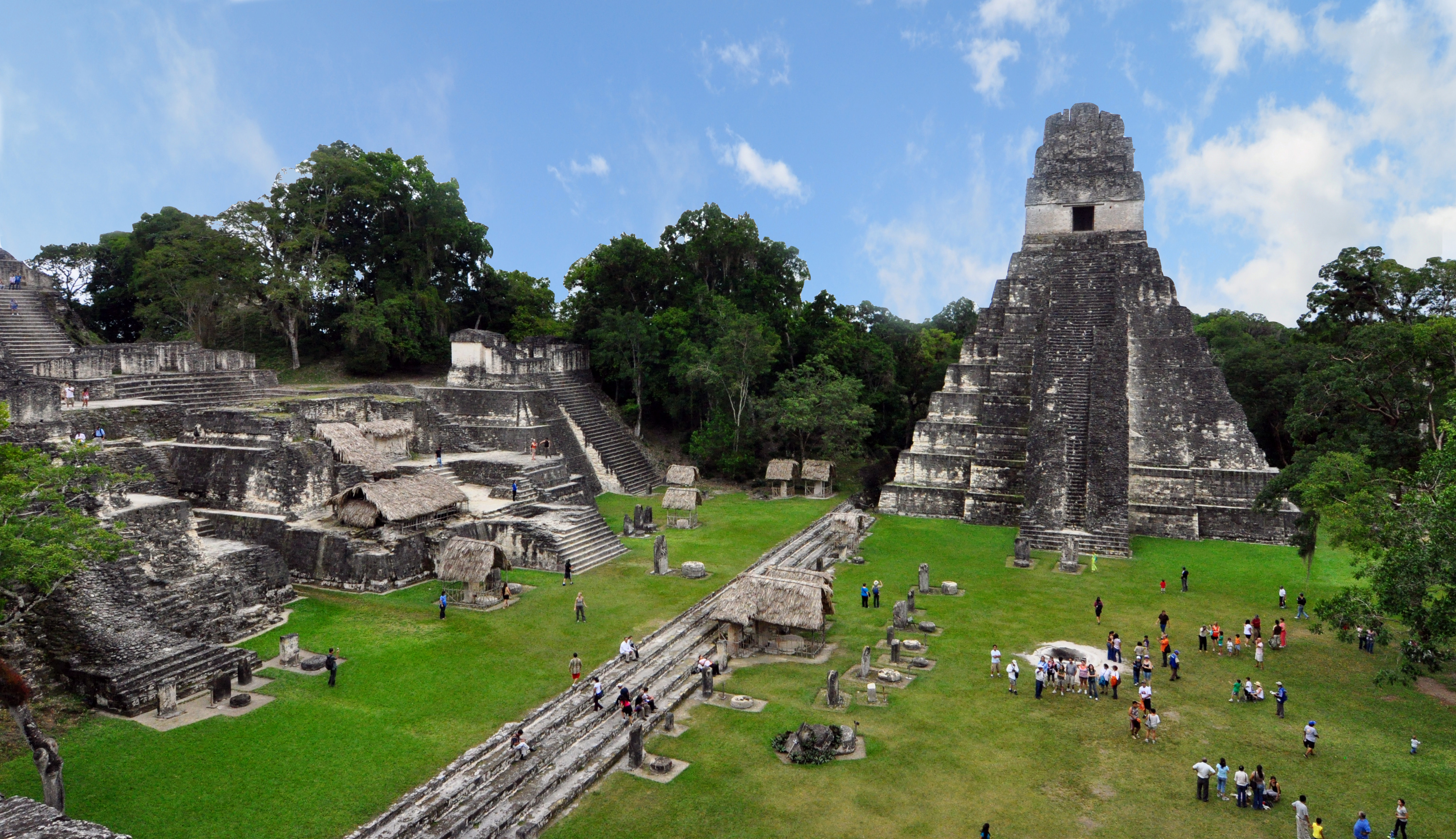 Tikal Mayan ruins Guatemala 2009